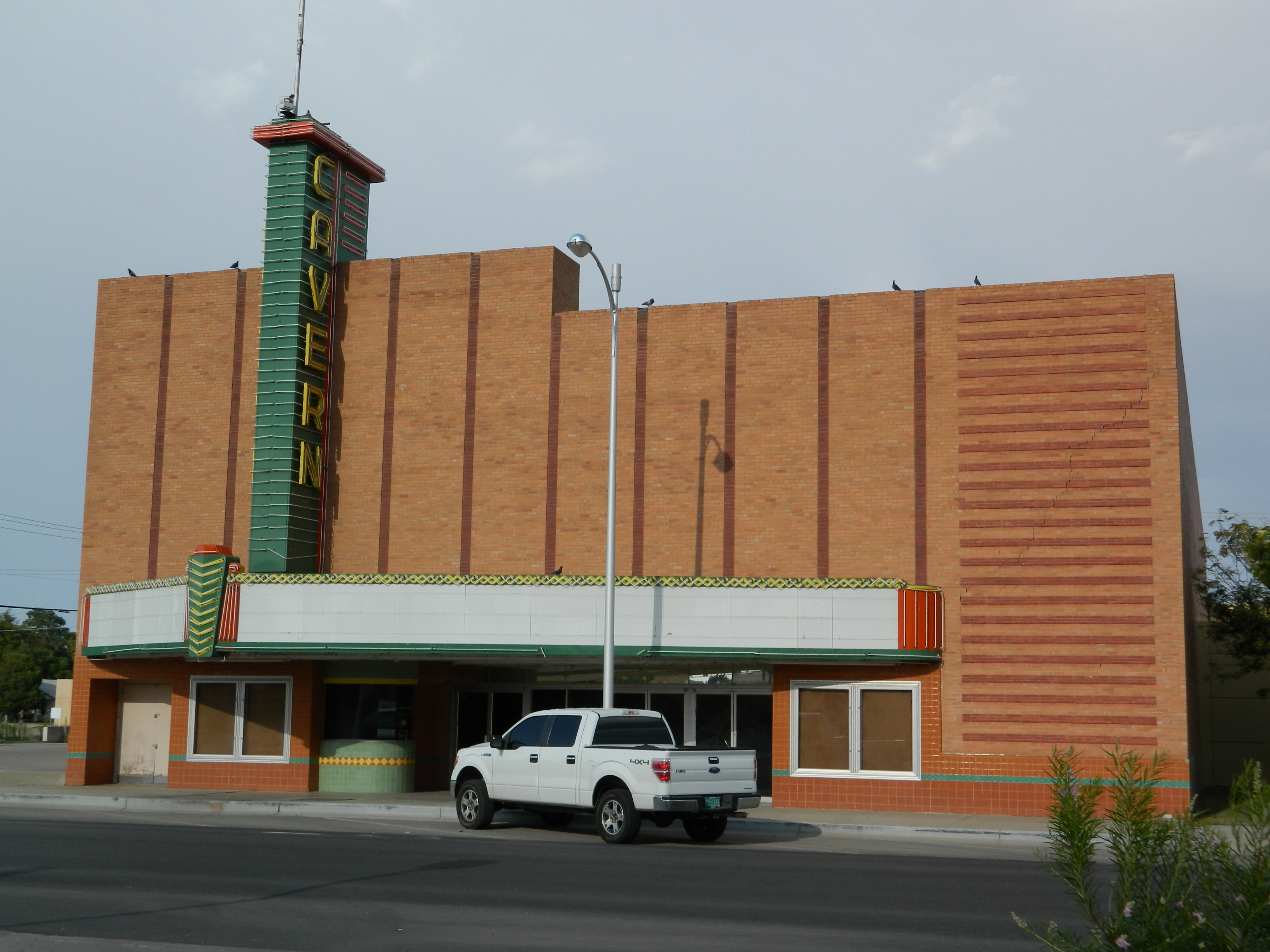 Cavern Theater, Carlsbad, New Mexico, United States